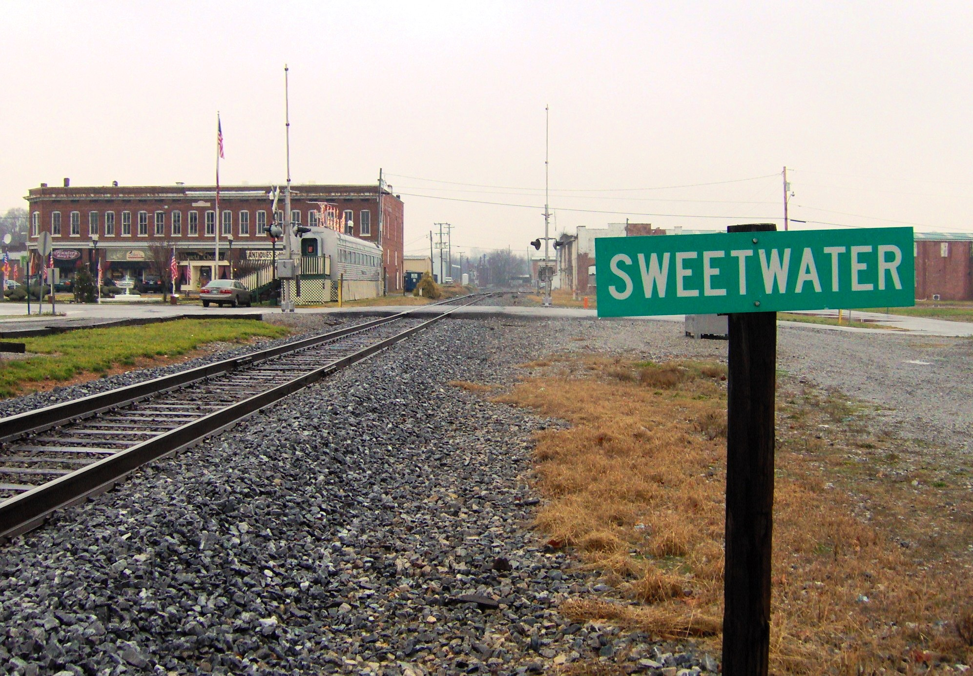 Sweetwater, Tennessee, located in the Southeastern United States.